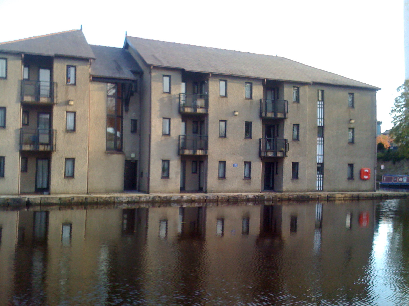 Chancellors Wharf a Lancaster University property on Aldcliffe Road, Lancaster